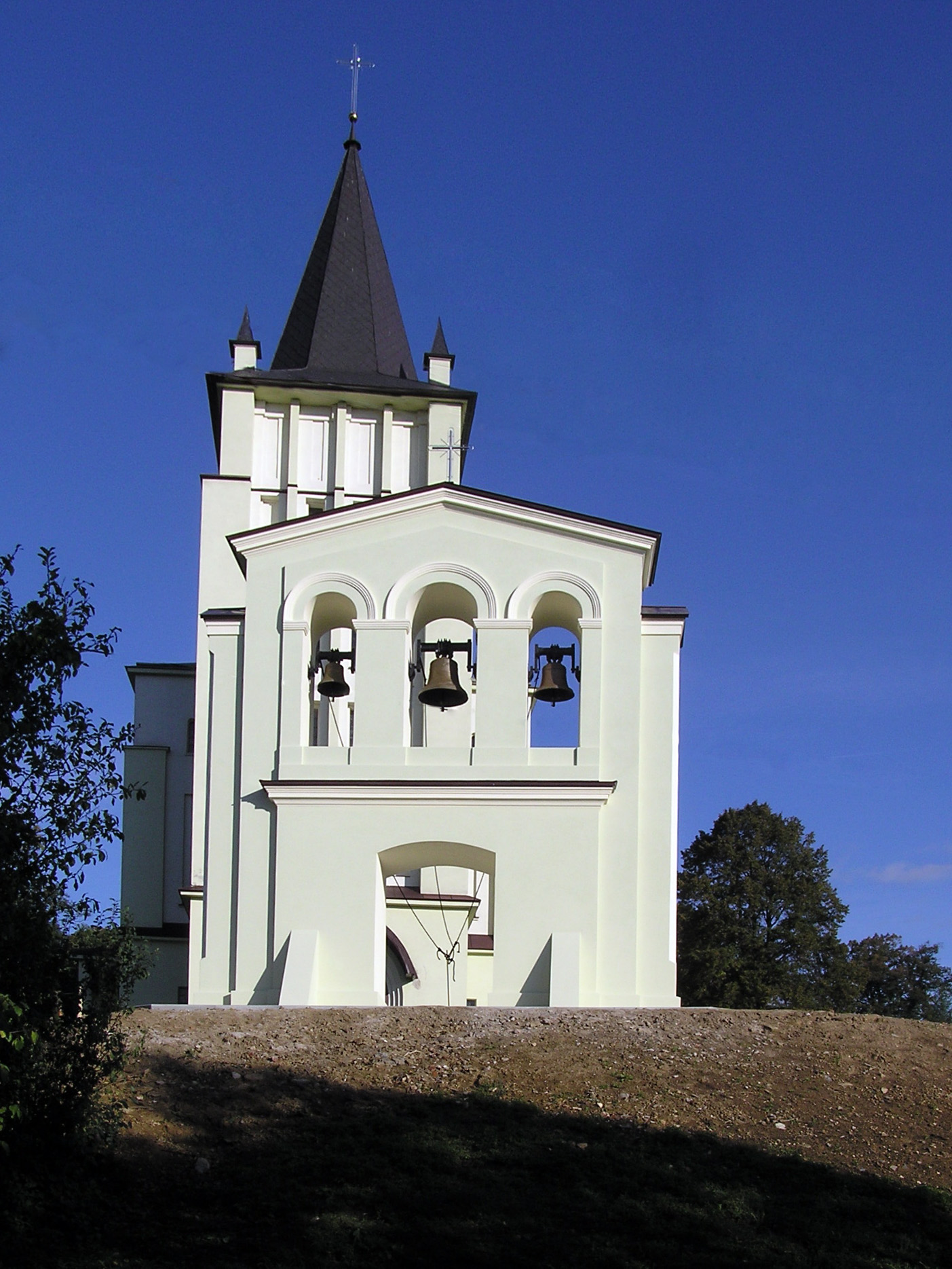 Zvonnitsy by the church of saint Catherine of Alexandria in Jasionów, Poland.